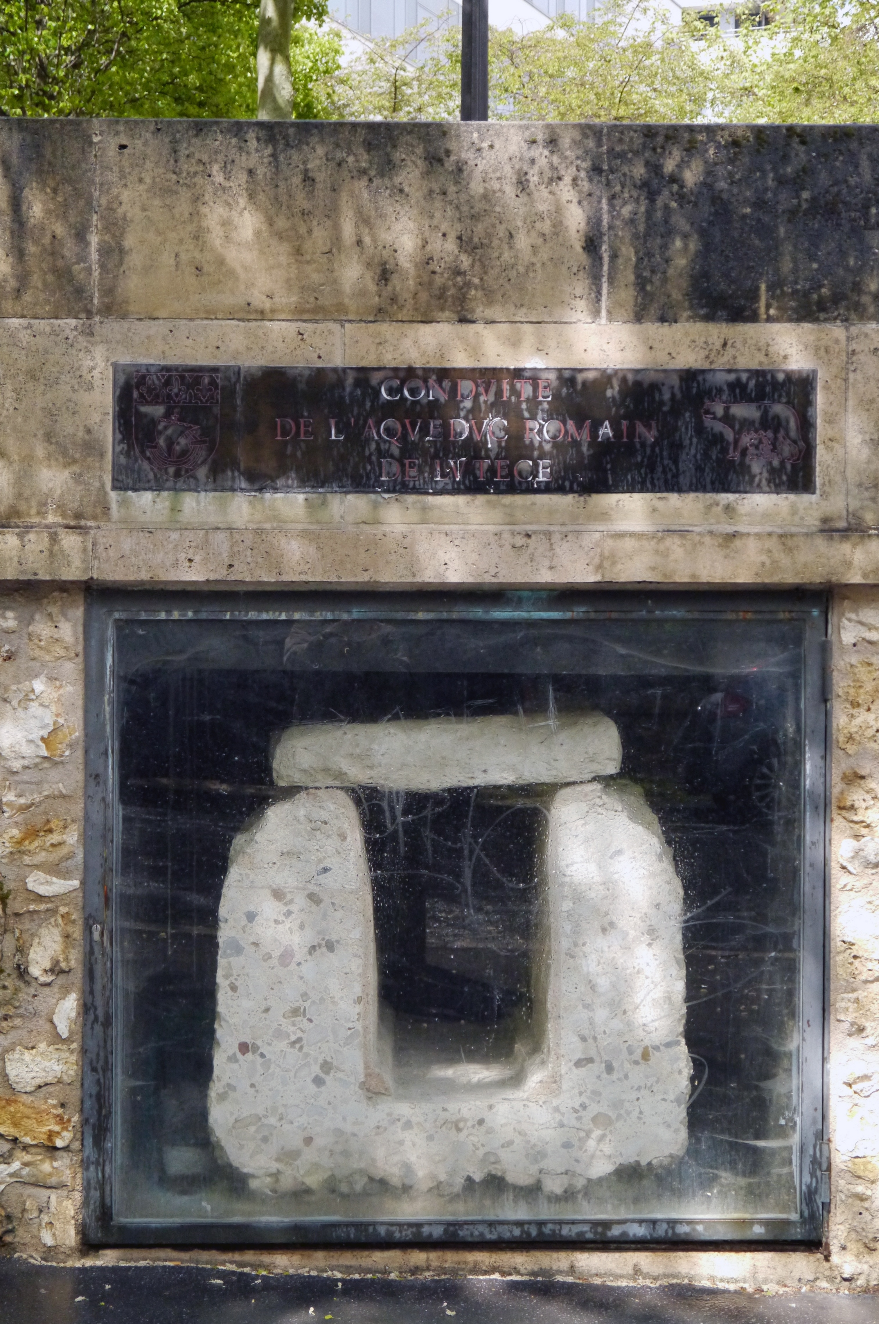 Avenue Reille, Paris 14th arrondissement. Former aqueduct of Lutecia.